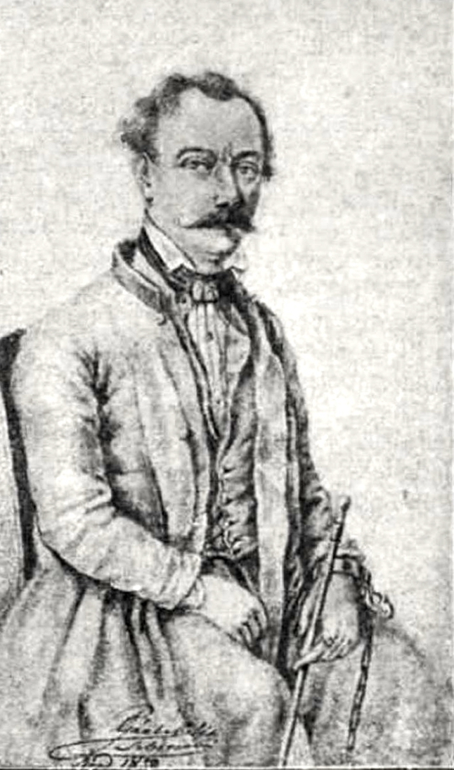 Self-portrait of Miklós Gyulai Gaál